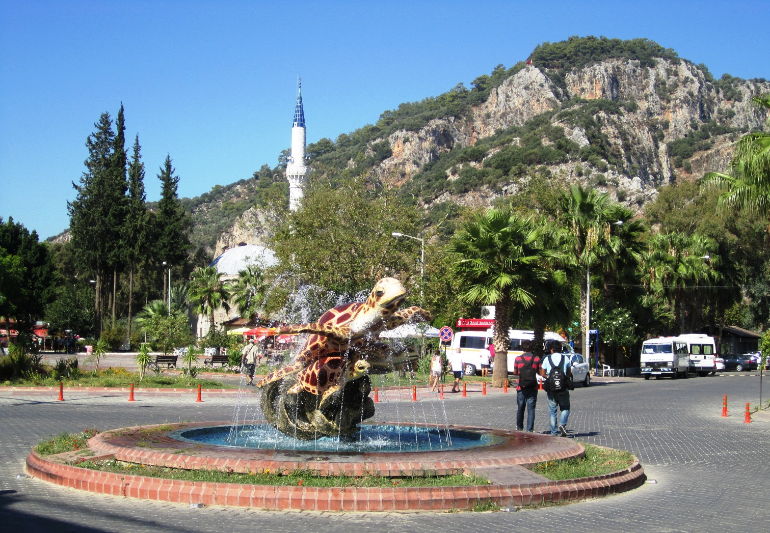 Turtle Monument in Dalyan